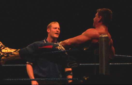 Eddie Guerrero @ Adelaide, South Australia 'Smackdown' house show on the 10th of April '05Eddie Guerrero